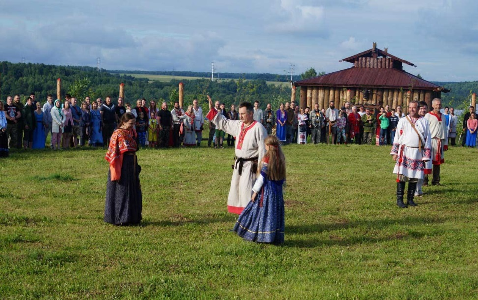 Perun Day 2017 celebrated by the Union of Slavic Rodnover Communities (Союз Славянских Общин Славянской Родной Веры), in Krasotinka, Kaluga, Russia.